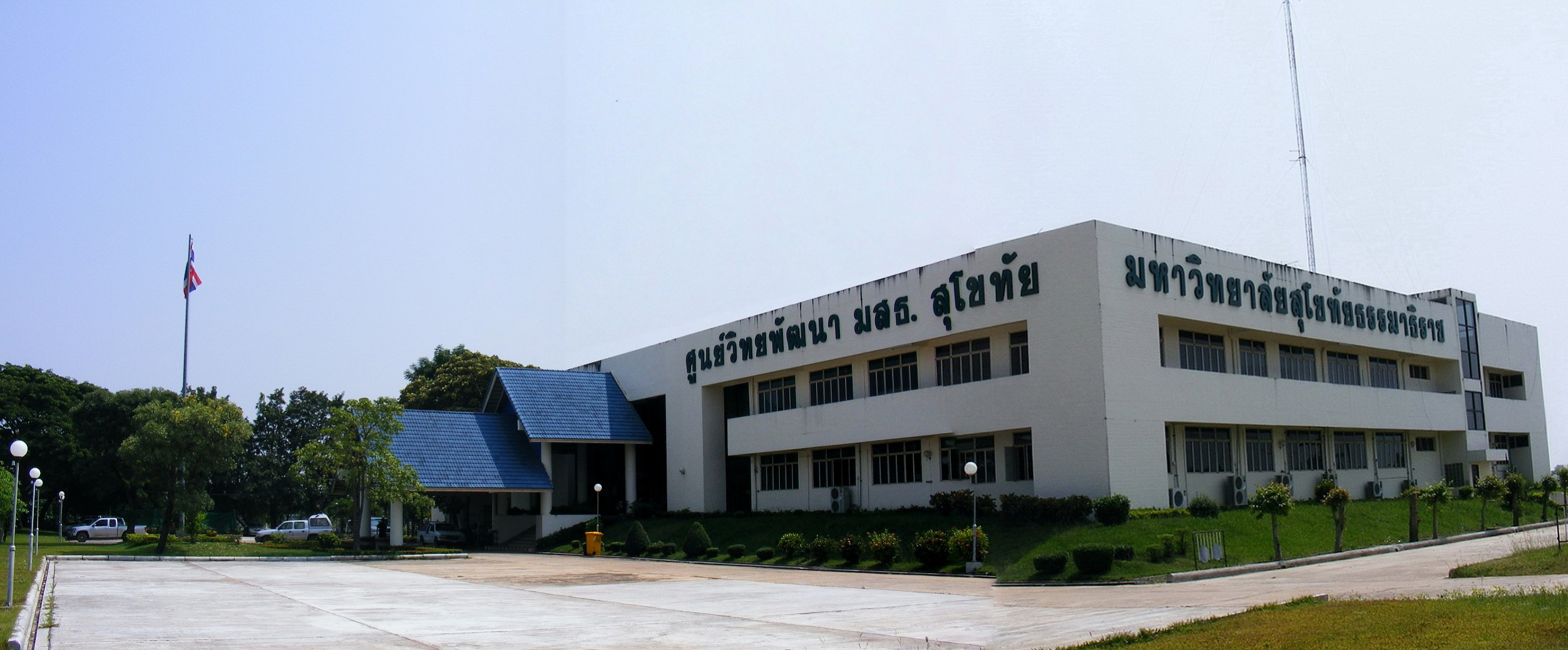 Regional Distance Education Center-Sukhothai, Sukhothai Thammathirat Open University